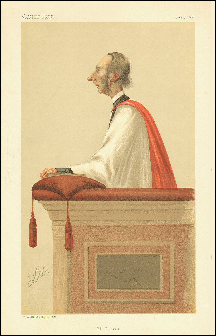 Men of the Day No.350: Caricature of The Very Rev RW Church MA. Caption reads: "St Paul's"